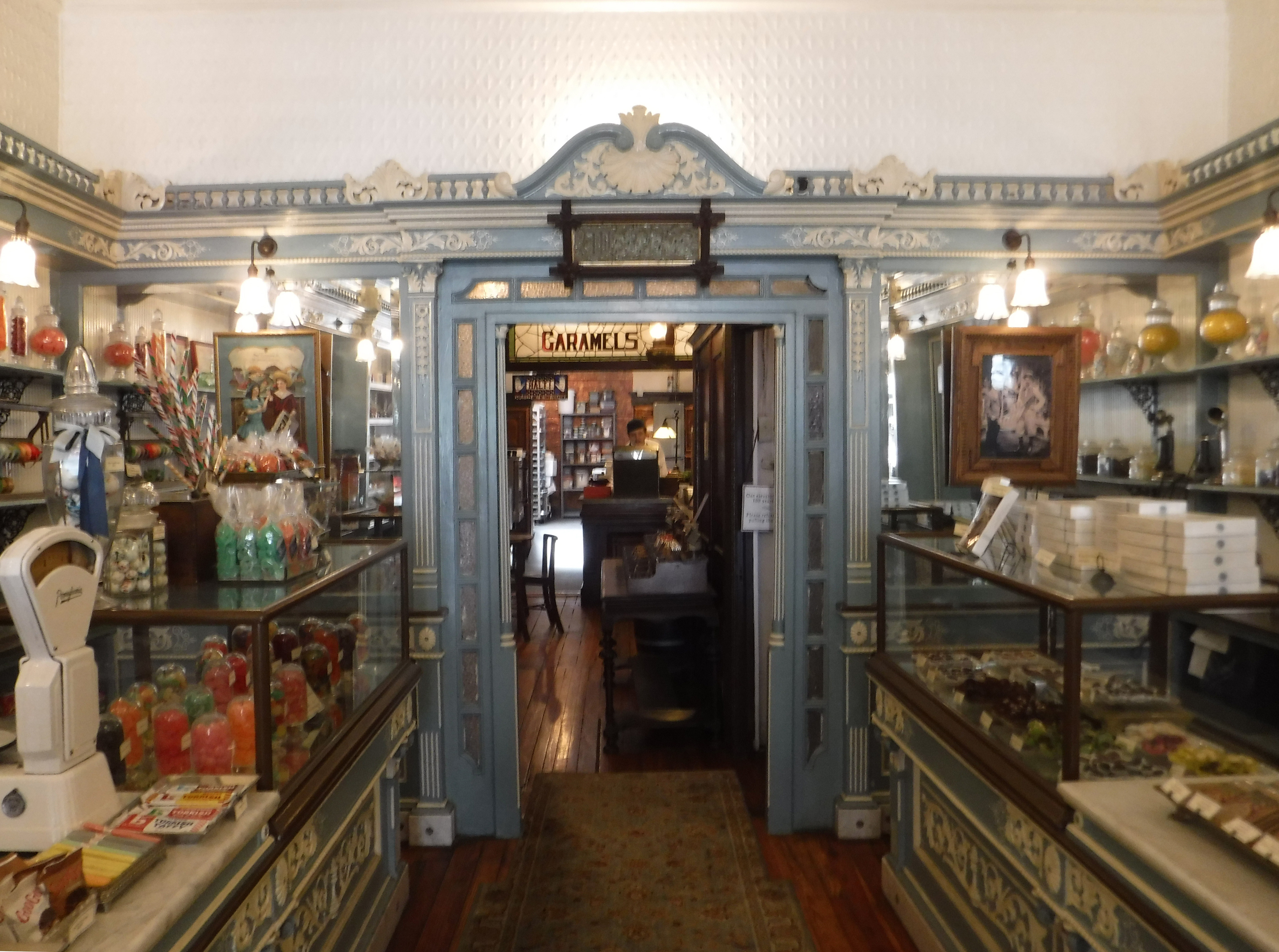 Interior at Shane Confectionery, 110 Market St, Philadelphia, PA 19106, traditional candy makers.